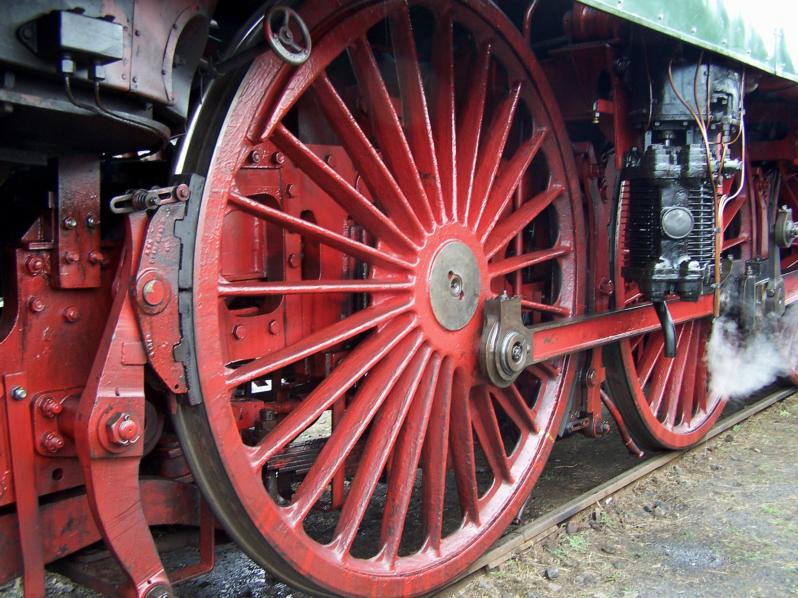 Coupled axis of German steam locomotive 18 201 in Meiningen Steam Locomotive Works, Germany, September 1st, 2007